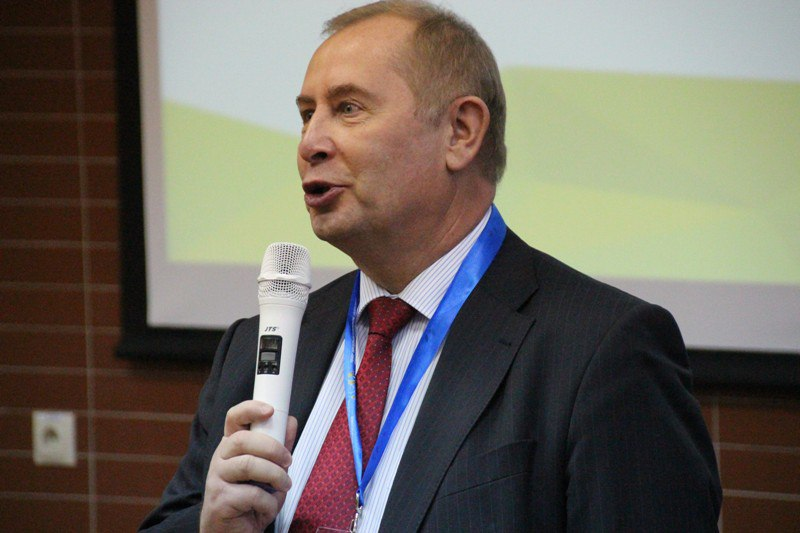 Alexandr Novikov, NSUEM rector